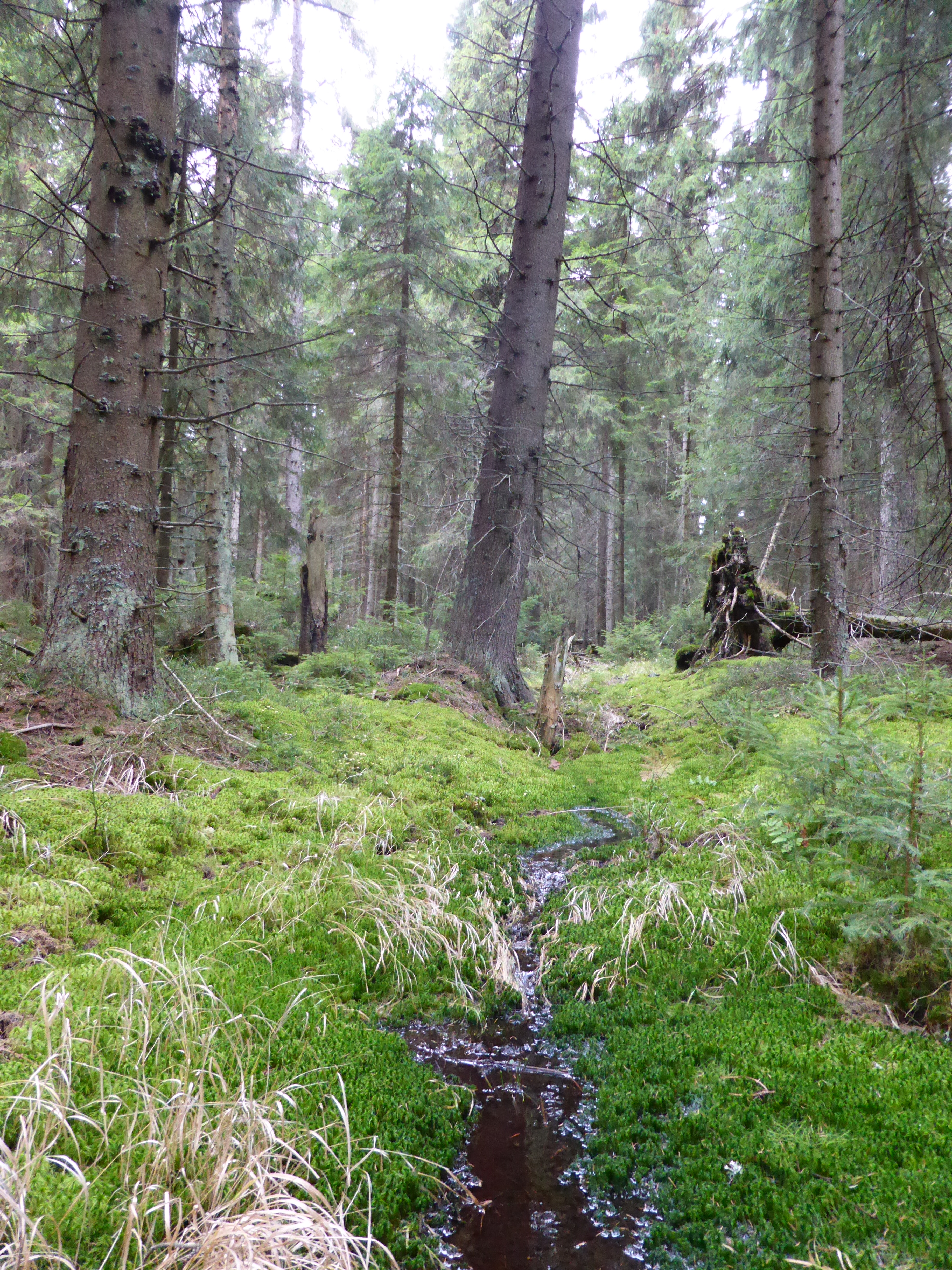 A 160 years old pine grove grown on a peat bog